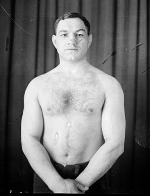 Three-quarter length portrait of pugilist Rocky Kansas standing in front of a dark backdrop in a room in Chicago, Illinois.